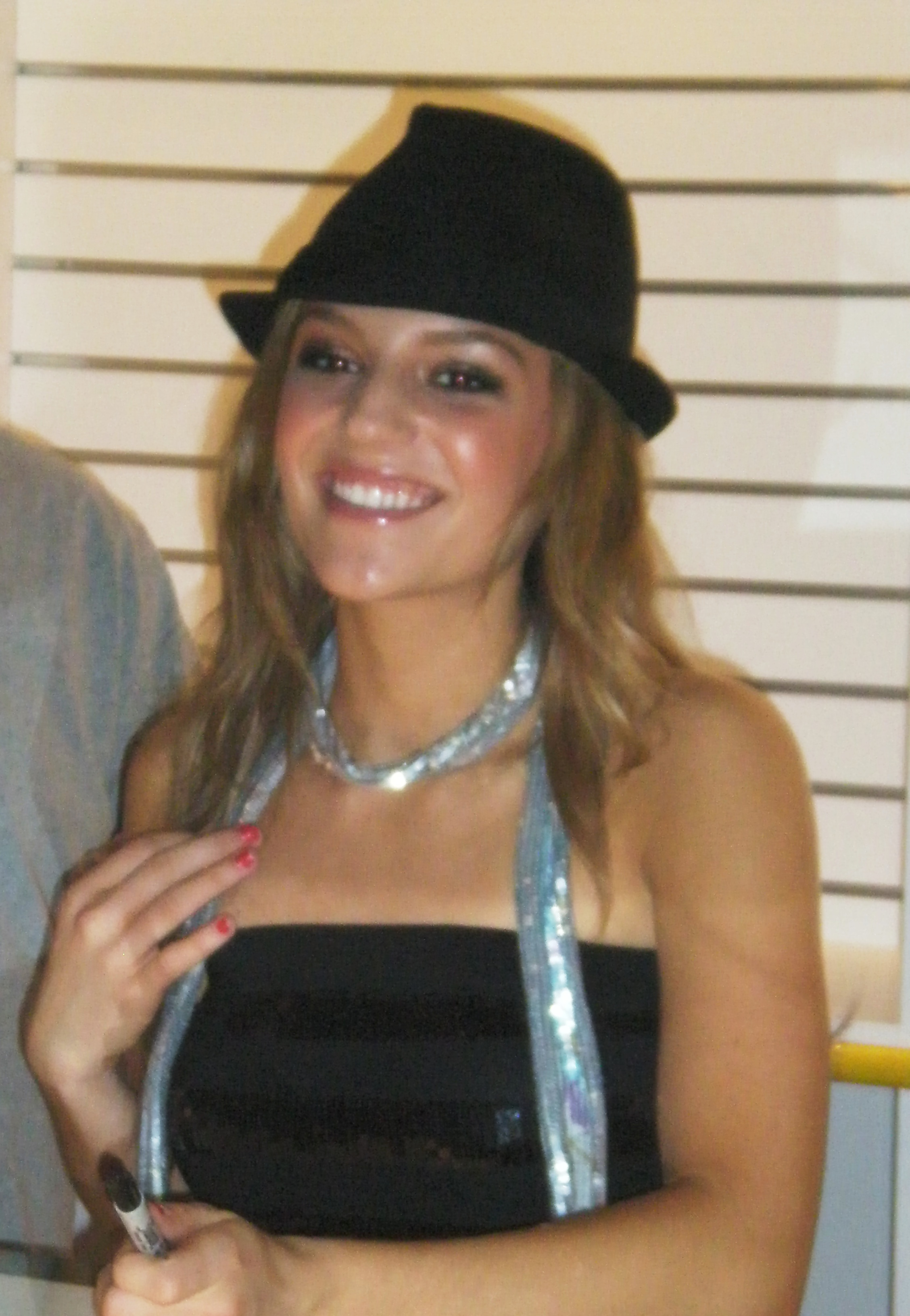 Jordan Pruitt signing autographs after a performance of the 2008 Tour of Gymnastics Superstars in San Jose, California.